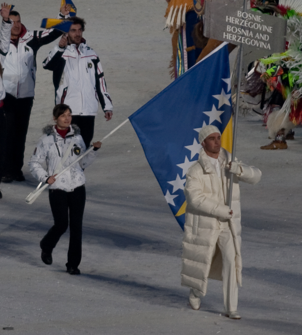 The athletes from Bosnia and Herzegovina entering the stadium at the opening ceremonies of the 2010 Winter Olympics